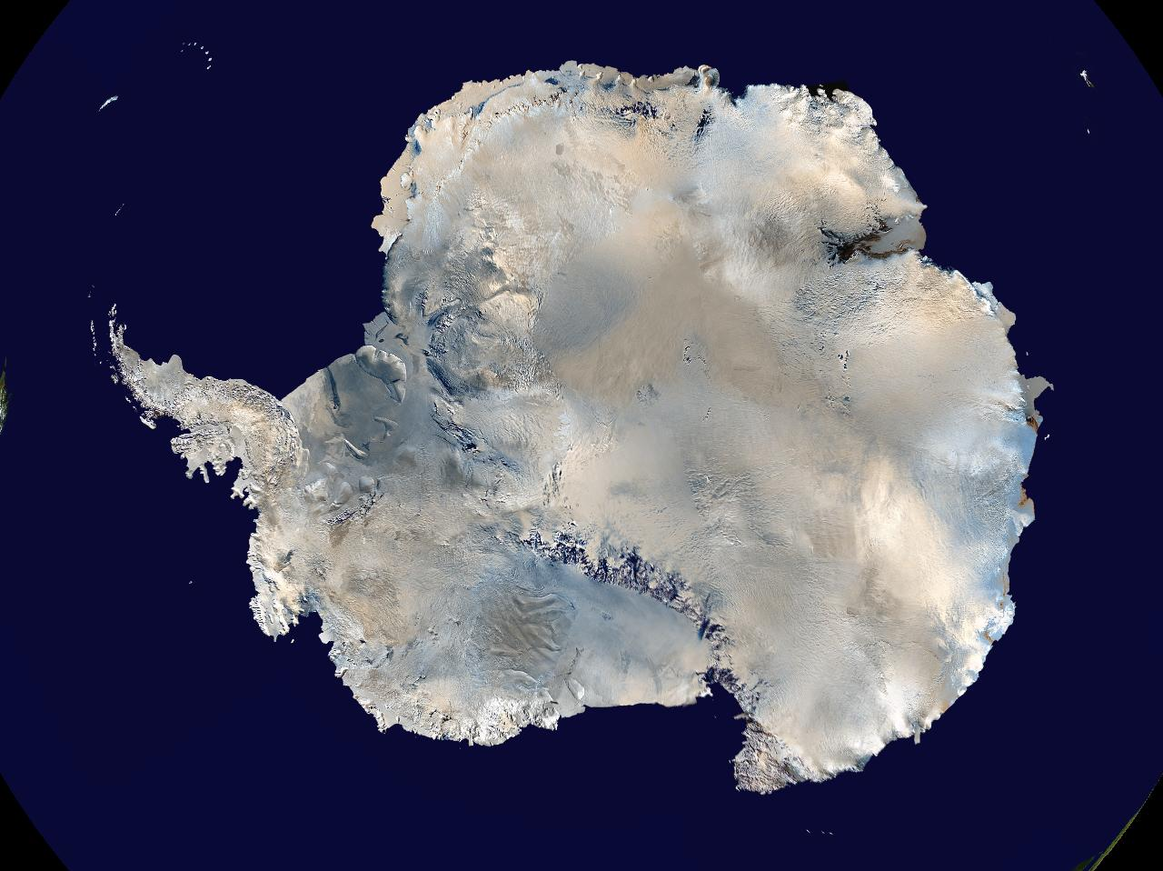 Antarctica. Satellite view.